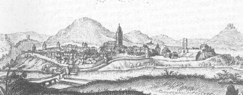 This is a scan of the historical document: Title: Wolfhagen - Topographia Hassiae language: german